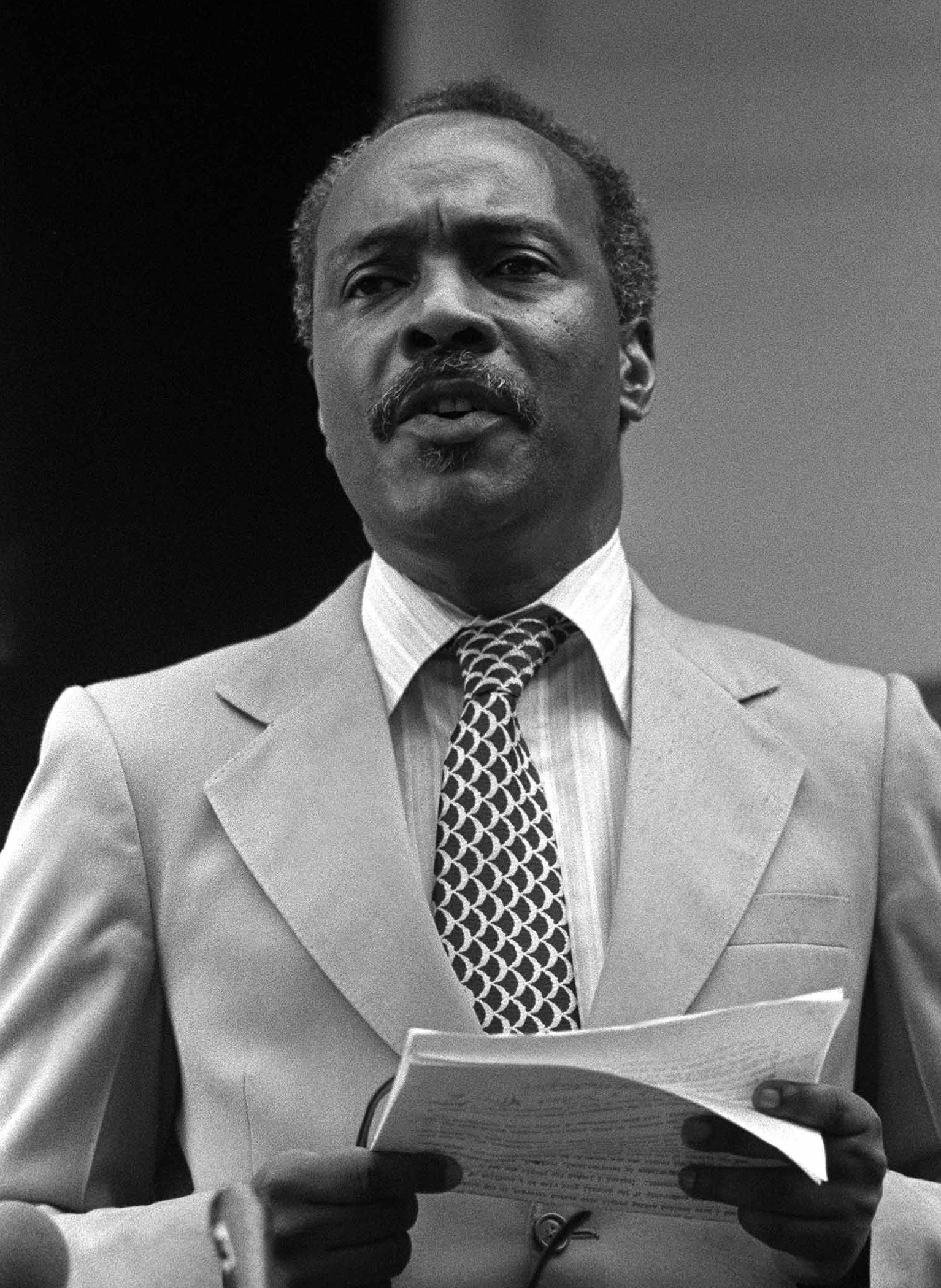 Governor-General Sir Paul Scoon speaks to members of the media after taking over as head of the new provisional government that was formed after Operation Urgent Fury.